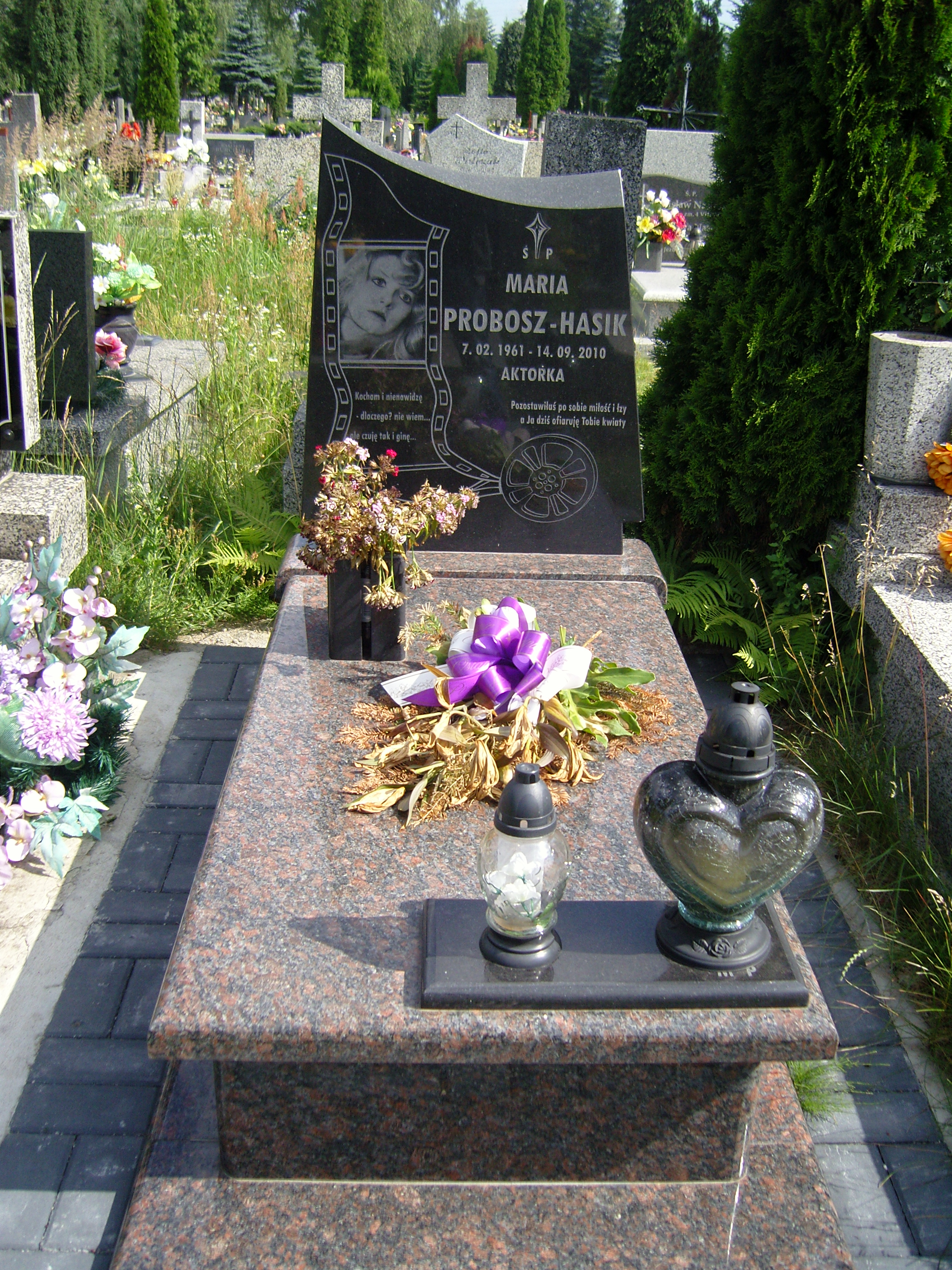 Maria Probosz's